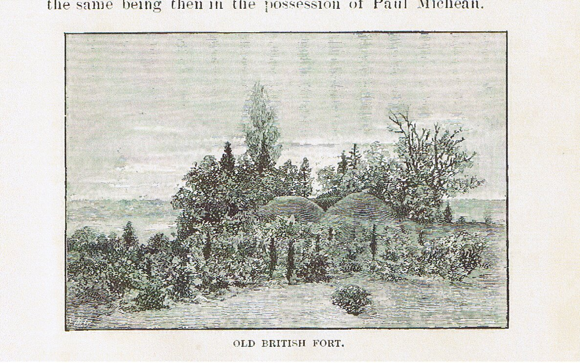 photo of old fort hill british redoubt staten island